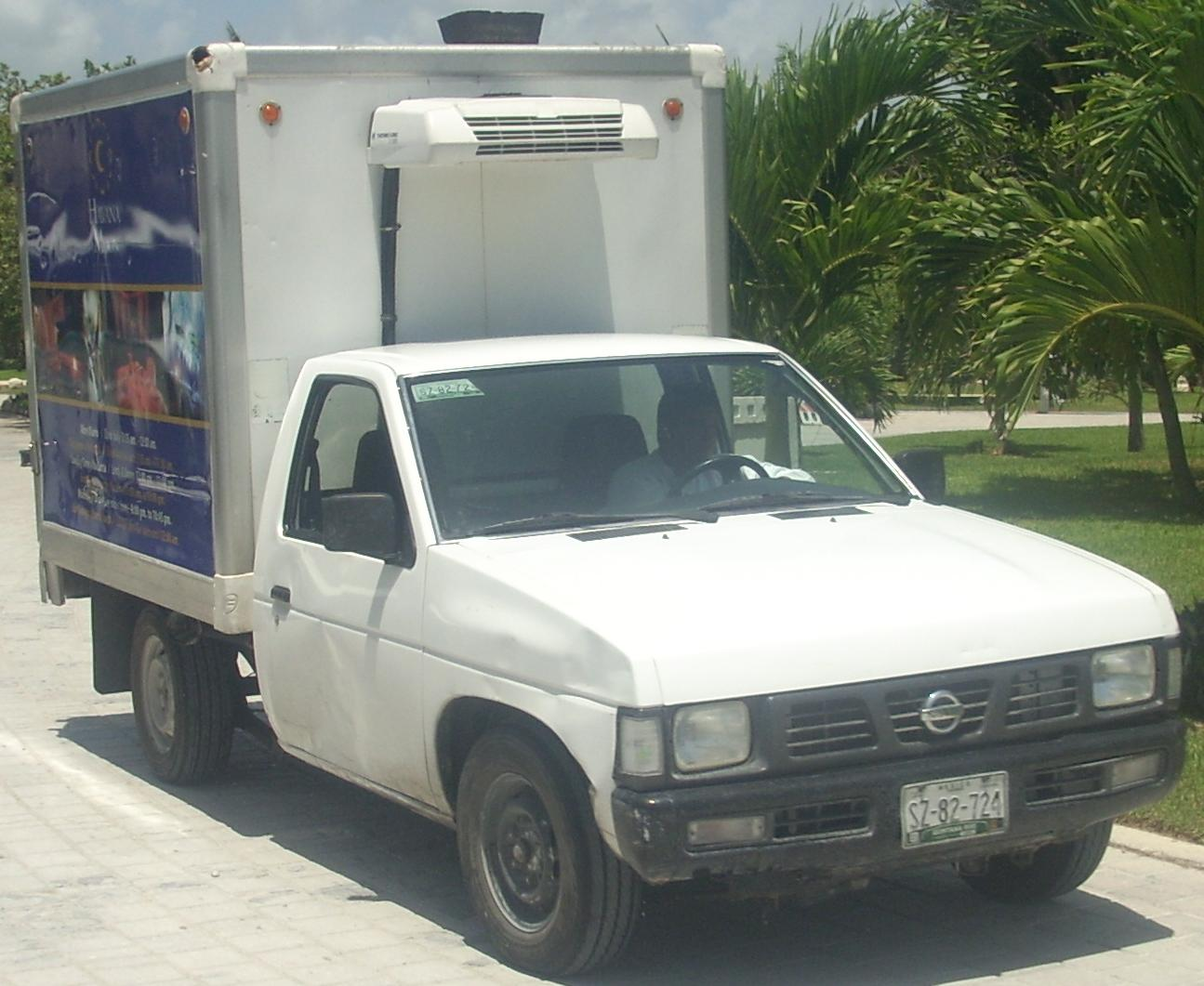 Nissan Hardbody Truck photographed in Cancun, Quintana Roo, Mexico.